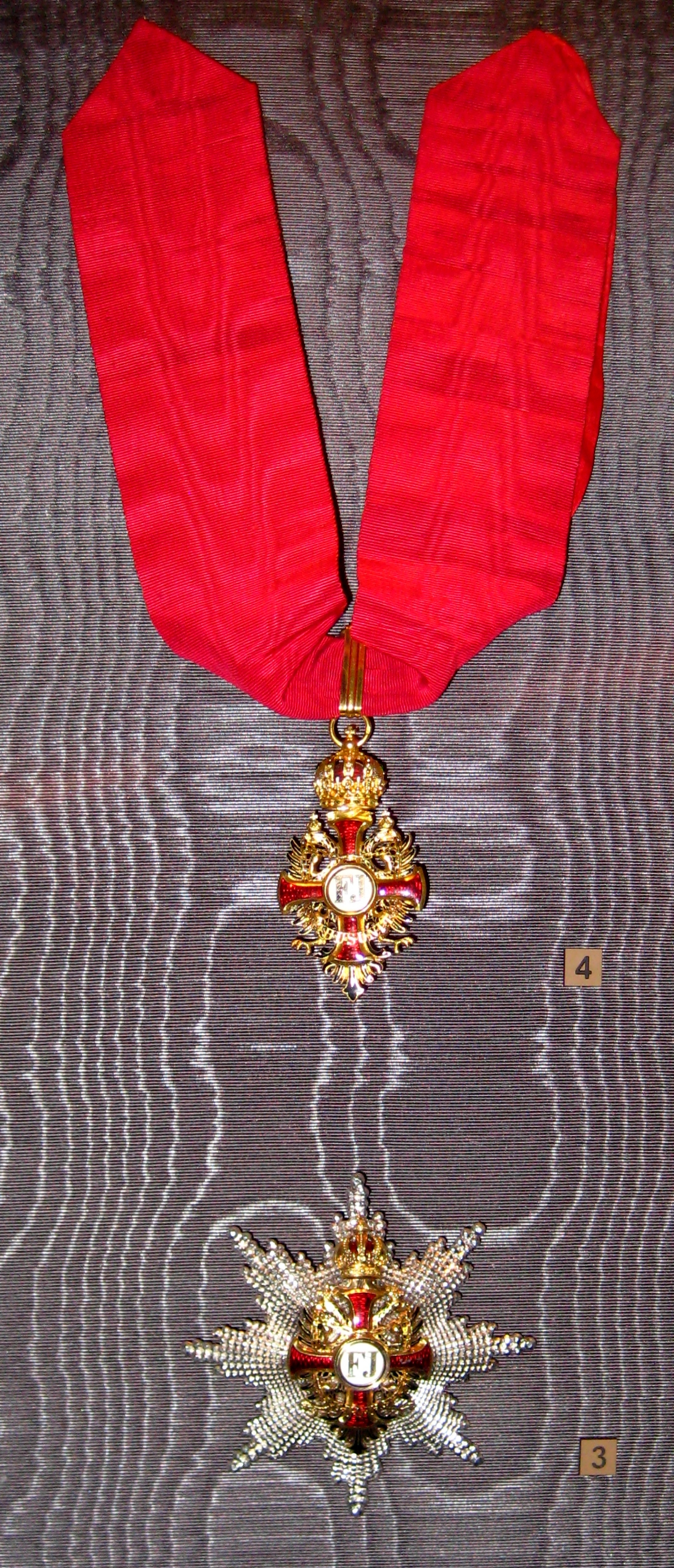 The star (3) and the order (4) of Franz Joseph. Austria-Hungary, Vienna, 19th century. Gold, silver, enamel. Hallmarks V. Mayer’s Söhne by Austrian imperial and royal court jeweler Vincenz Mayer.